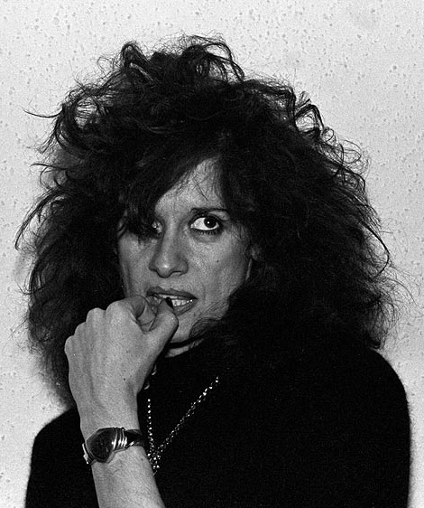 Penelope Spheeris, Director on the campus of University of Maryland after an interview with The Diamondback student newspaper in which it was printed soon after. She was promoting her new movie Suburbia